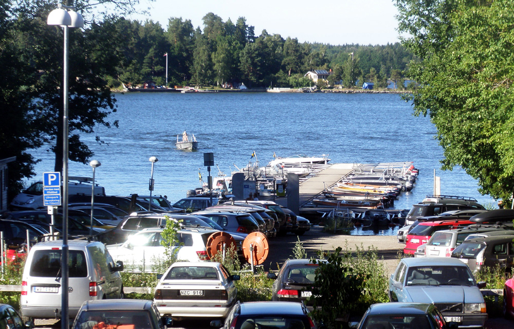 Mor Annas brygga at norther part of Lidingö Island, Stockholm, Sweden.